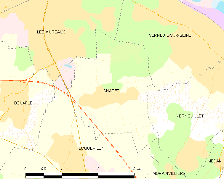 Map of French municipality Chapet